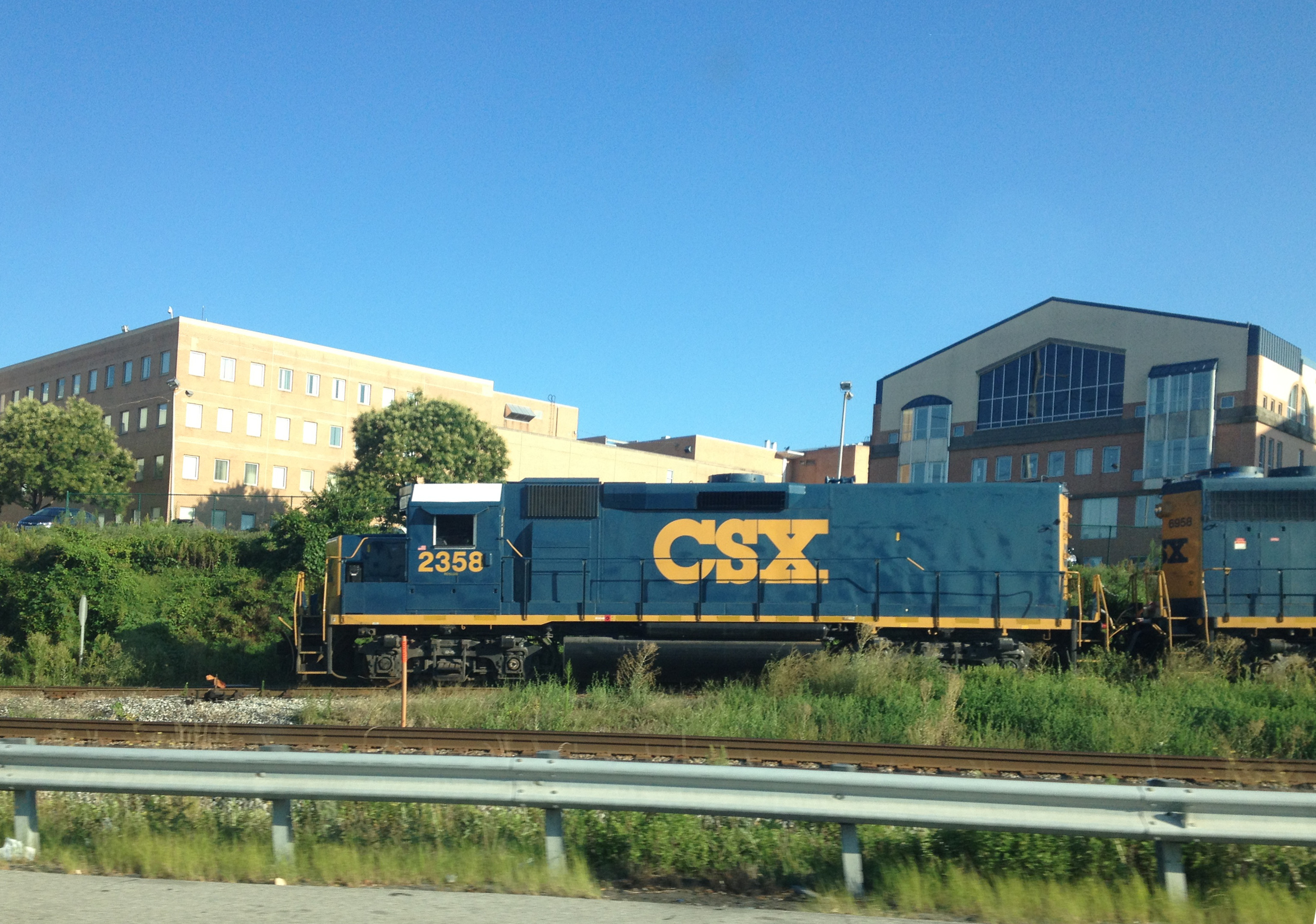 CSX road slug 2358 (ex-EMD GP40) as part of a light engine move serving a siding along the Philadelphia Subdivision in Chester, Pennsylvania